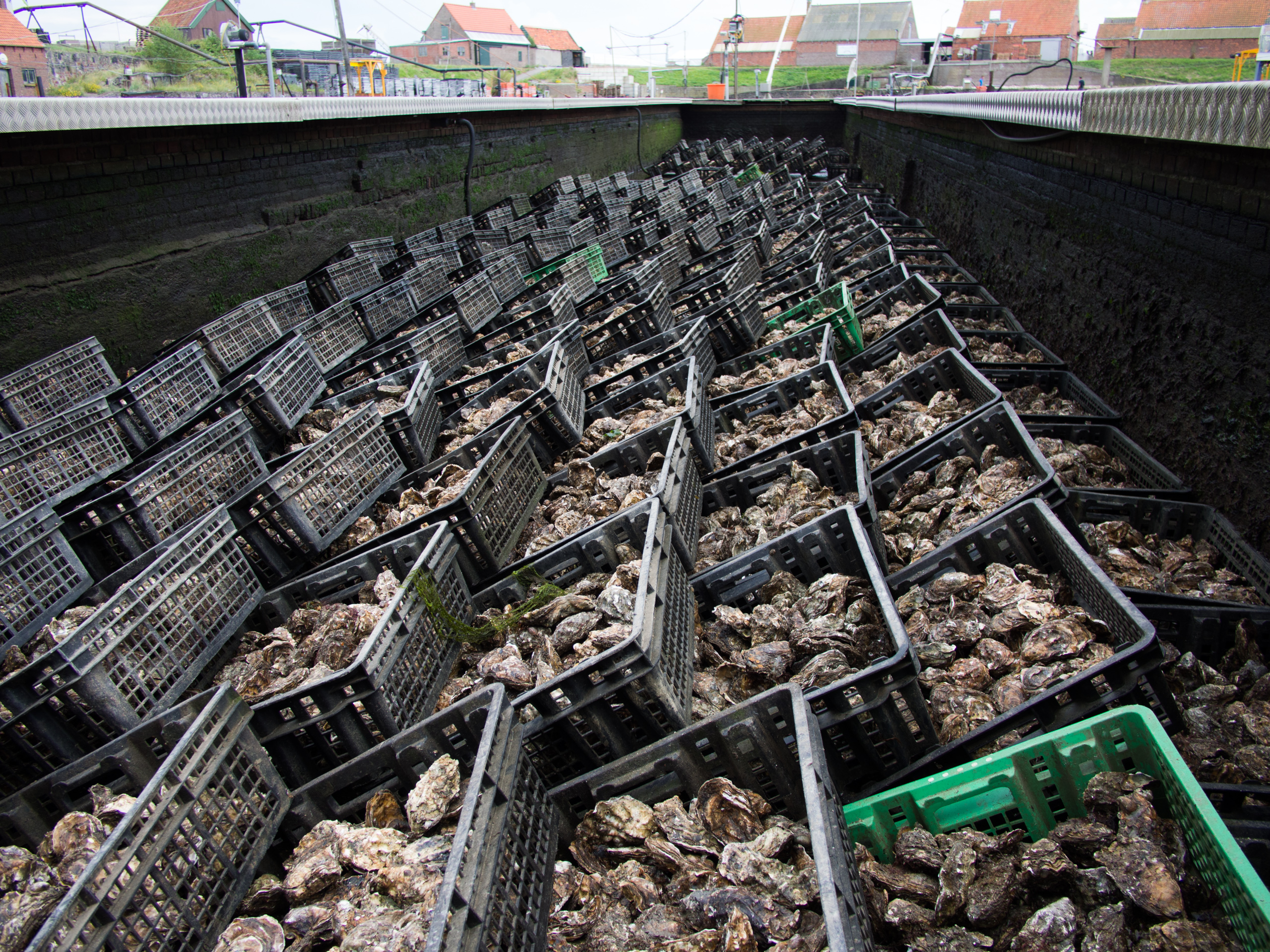 Here in the village of Yerseke, Netherlands, pacific oysters (locally called "creuse") that have been cultivated in the Oosterschelde, are kept in large oyster pits after they have been harvested, awaiting sale. The seawater in these pits is pumped in and out, simulating tidal movements.